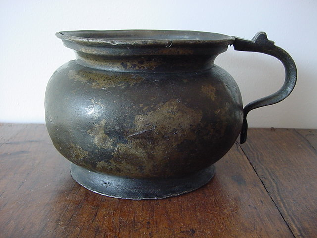 Pewter chamber pot Dutch 16th C